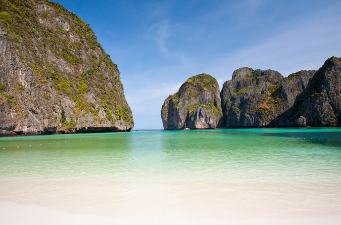 Maya Bay on Ko Phi Phi Lee Island.